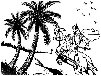 عرفجة بن هرثمة : أحد قادة الفتوح العربية الإسلامية